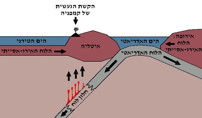 Formation of the Campanian volcanic arc